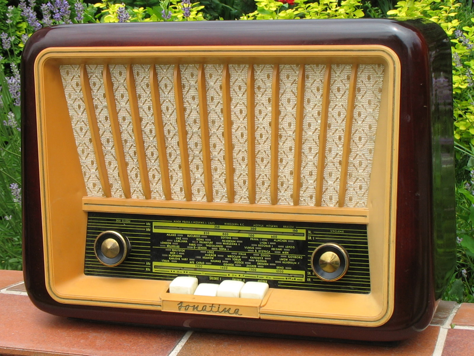 Radio "Sonatina", manufacturer: "DIORA" (Poland), 1957-1963